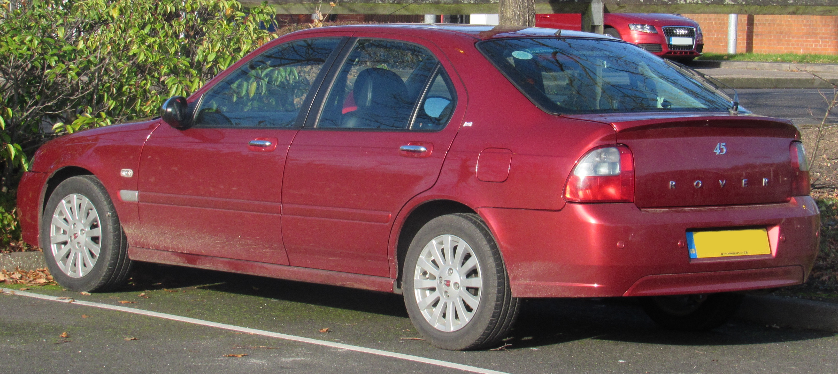 2005 Rover 45 GSi 1.4 Taken in Warwick